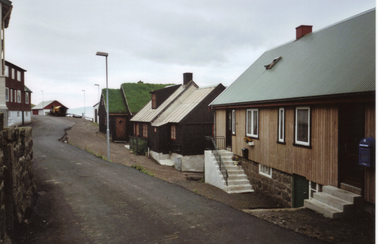 Main street of the village, Hestur, Faroe Islands